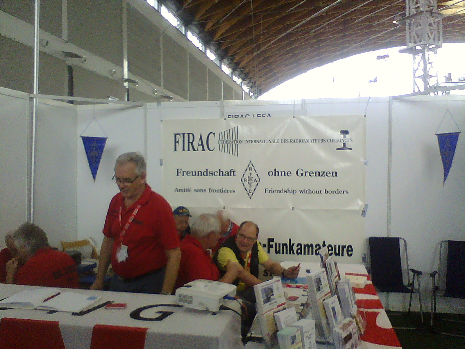 FIRAC booth at Ham Radio Friedrichshafen 2013